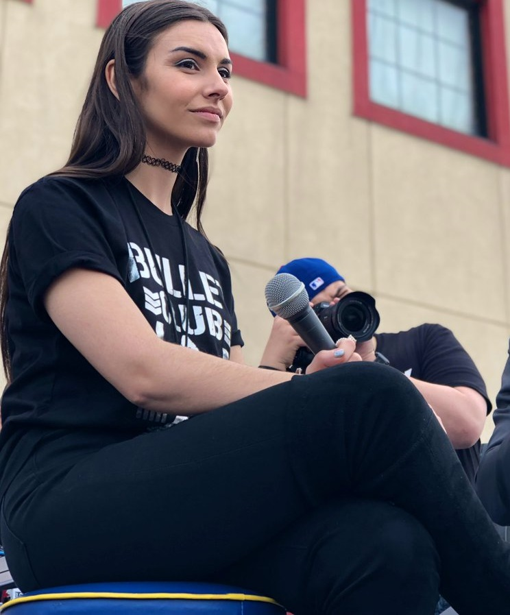 Photo of Alicia Atout on Bullet Club Block Party on April 7th 2019